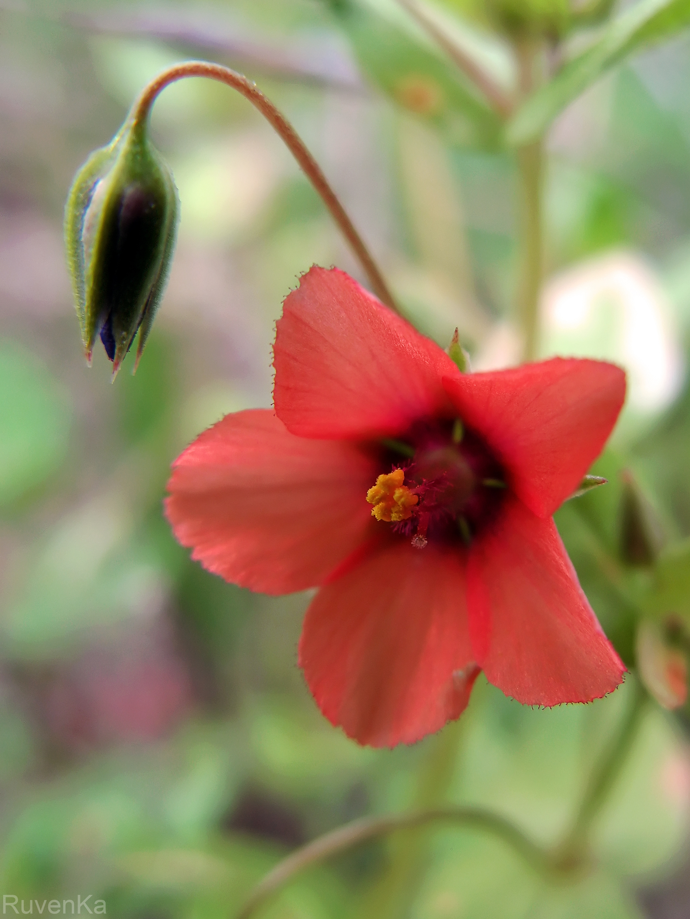 Anagallis arvensis - orange in Israel